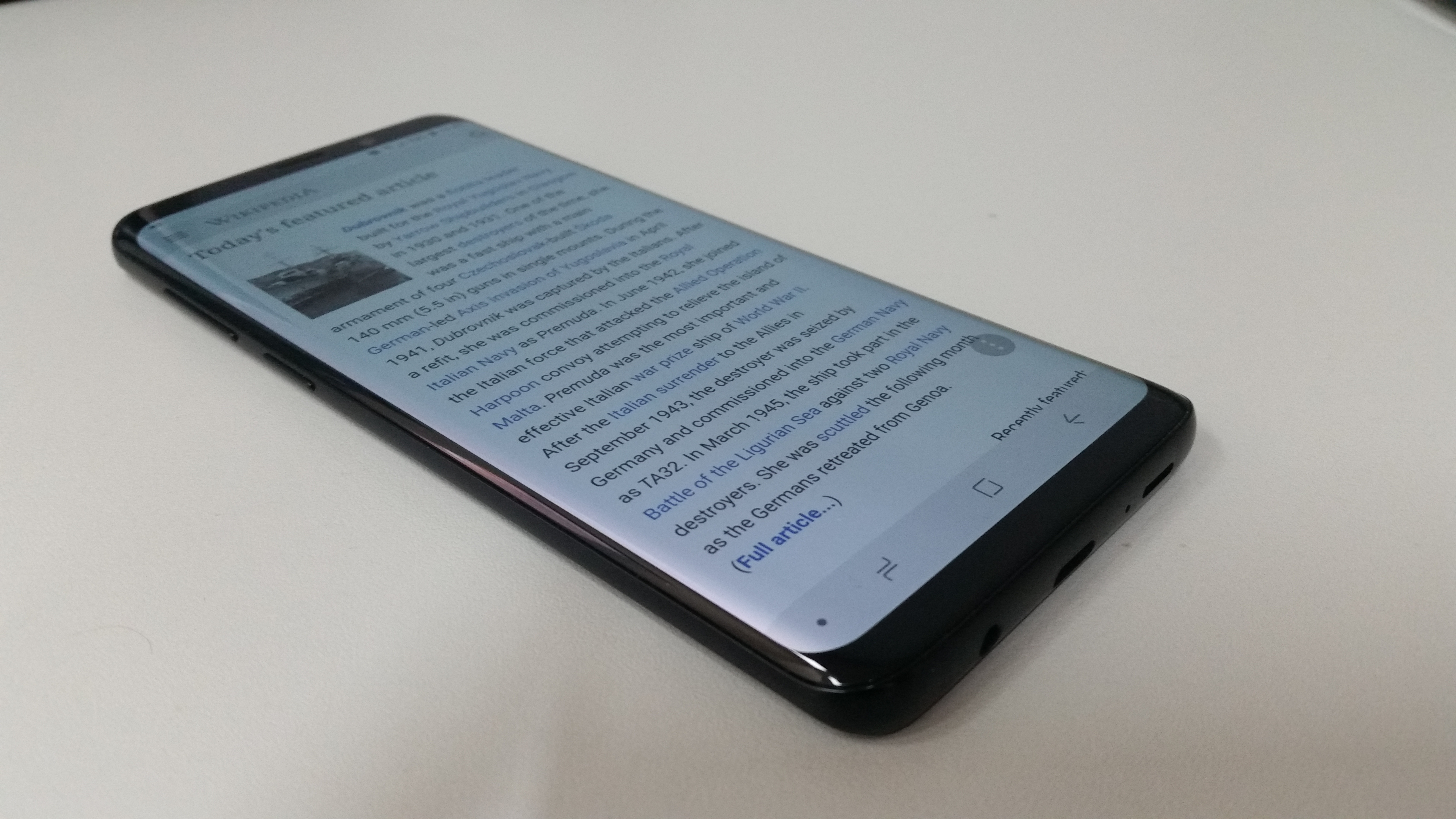 Samsung Galaxy S9+ showing Wikipedia main page with a standard browser.